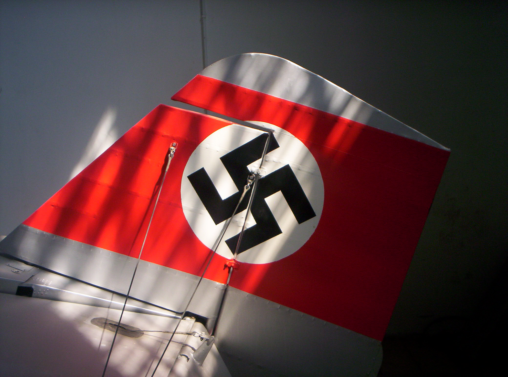 Curtiss Export Hawk II, Polish Aviation Museum in Kraków